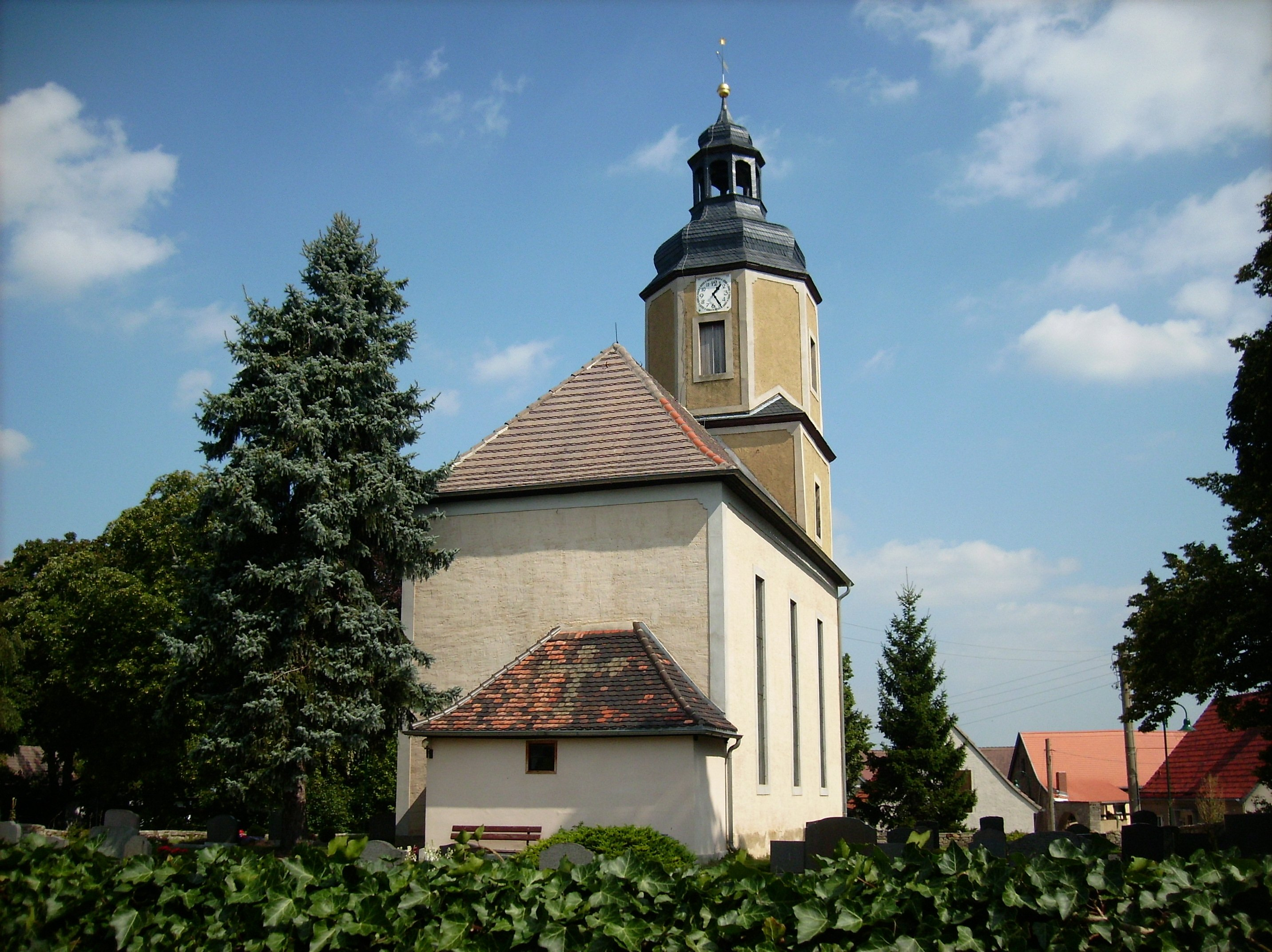 Church of the village of Neidschütz (Naumburg/Saale, district of Burgenlandkreis, Saxony-Anhalt)